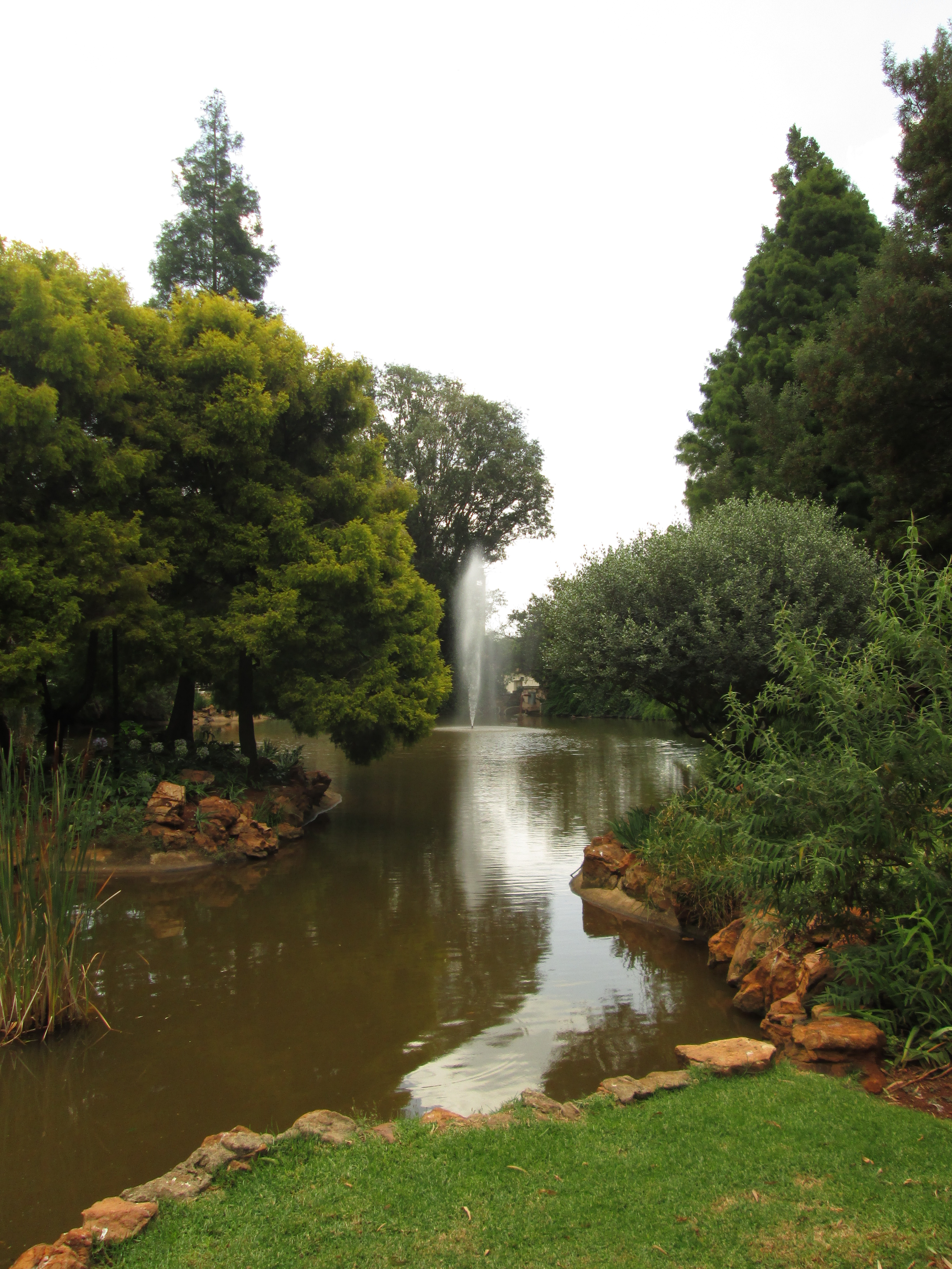 The pond to the west of the Gavin Reilly Green (colloquially "the Law Lawns") on the West Campus of the University of the Witwatersrand, Johannesburg.